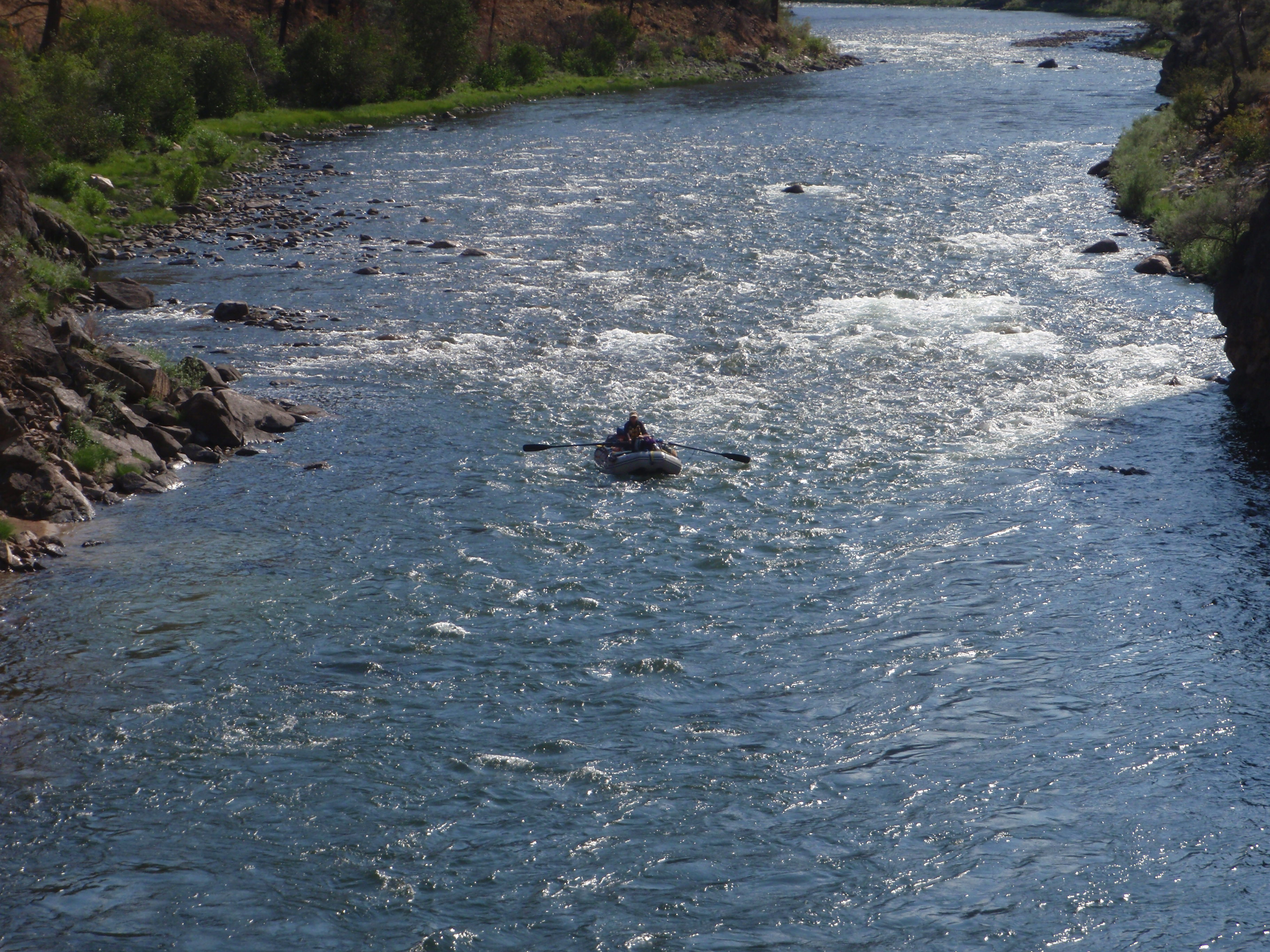 Raft in a Class II- Riffle on the Middle Fork of the Salmon River, Idaho